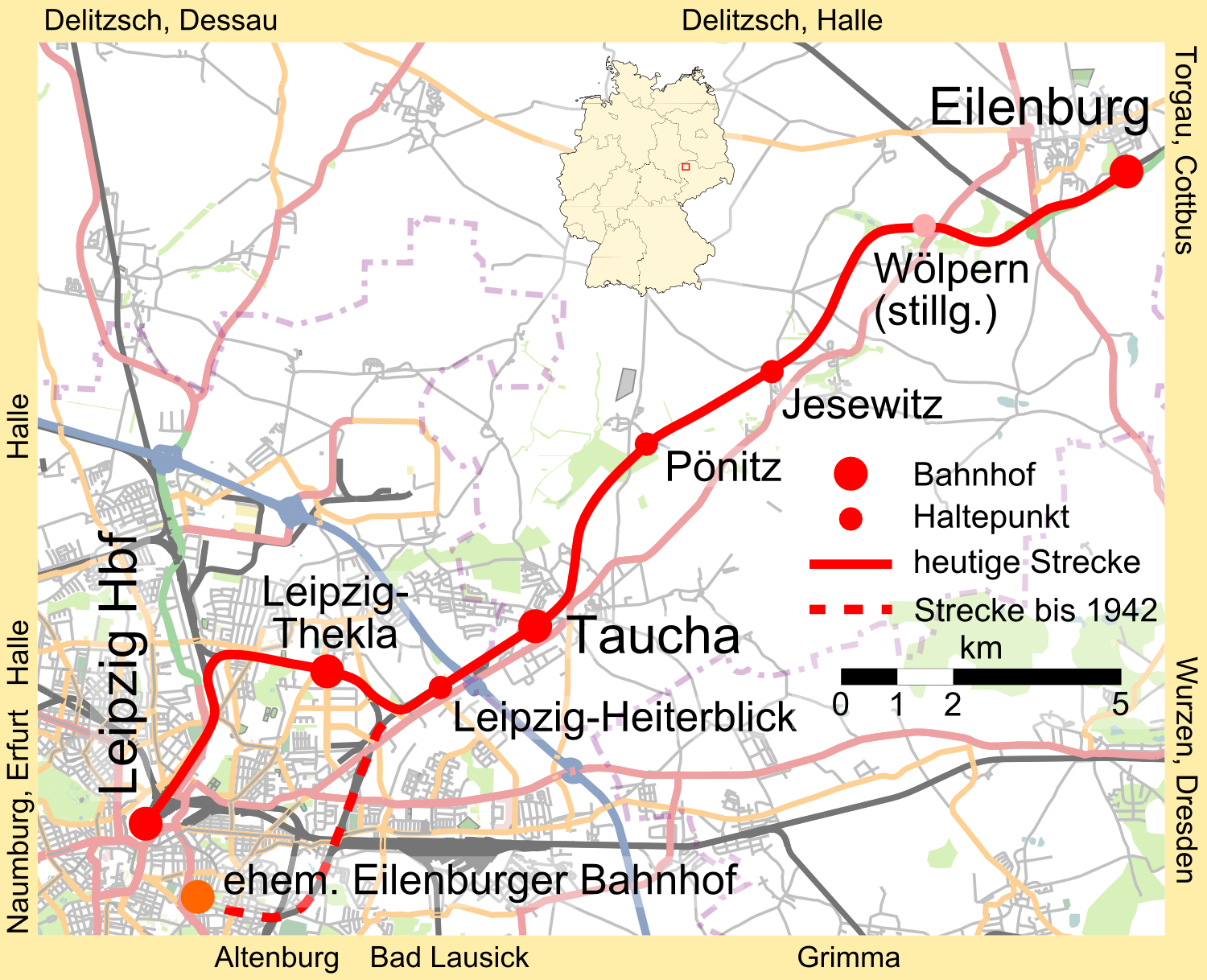 Map of Leipzig–Eilenburg railway This map may be incomplete, and may contain errors. Don't rely solely on it for navigation.